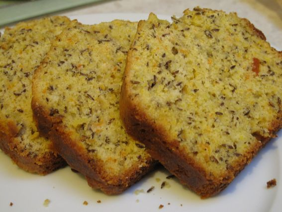 Caraway seed cake with oranges and carrots. Seed cake is a traditional British cake flavoured with caraway seeds